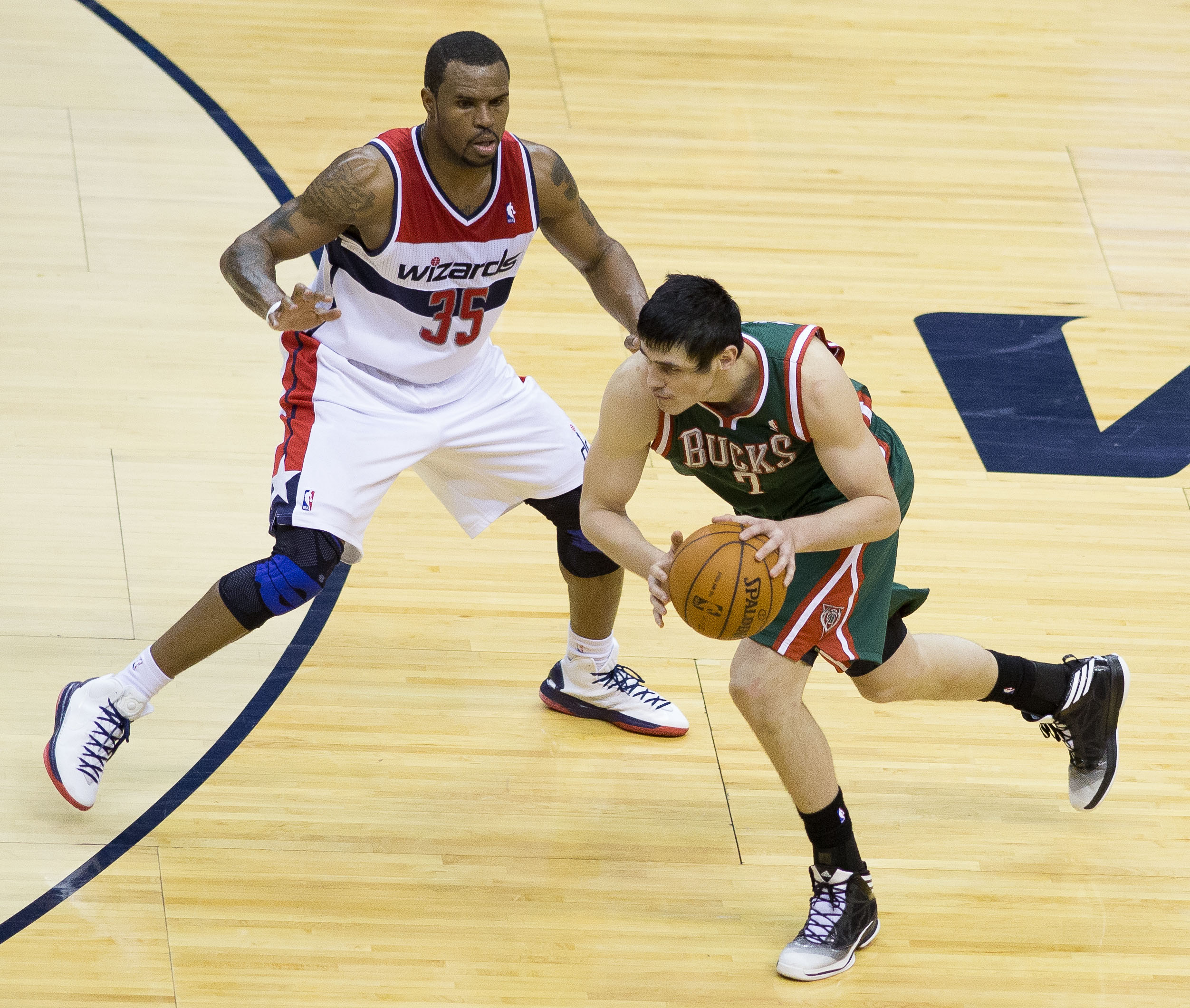 Milwaukee Bucks at Washington Wizards March 13, 2013